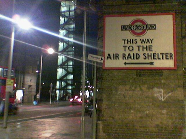 London Air Raid Shelter Sign